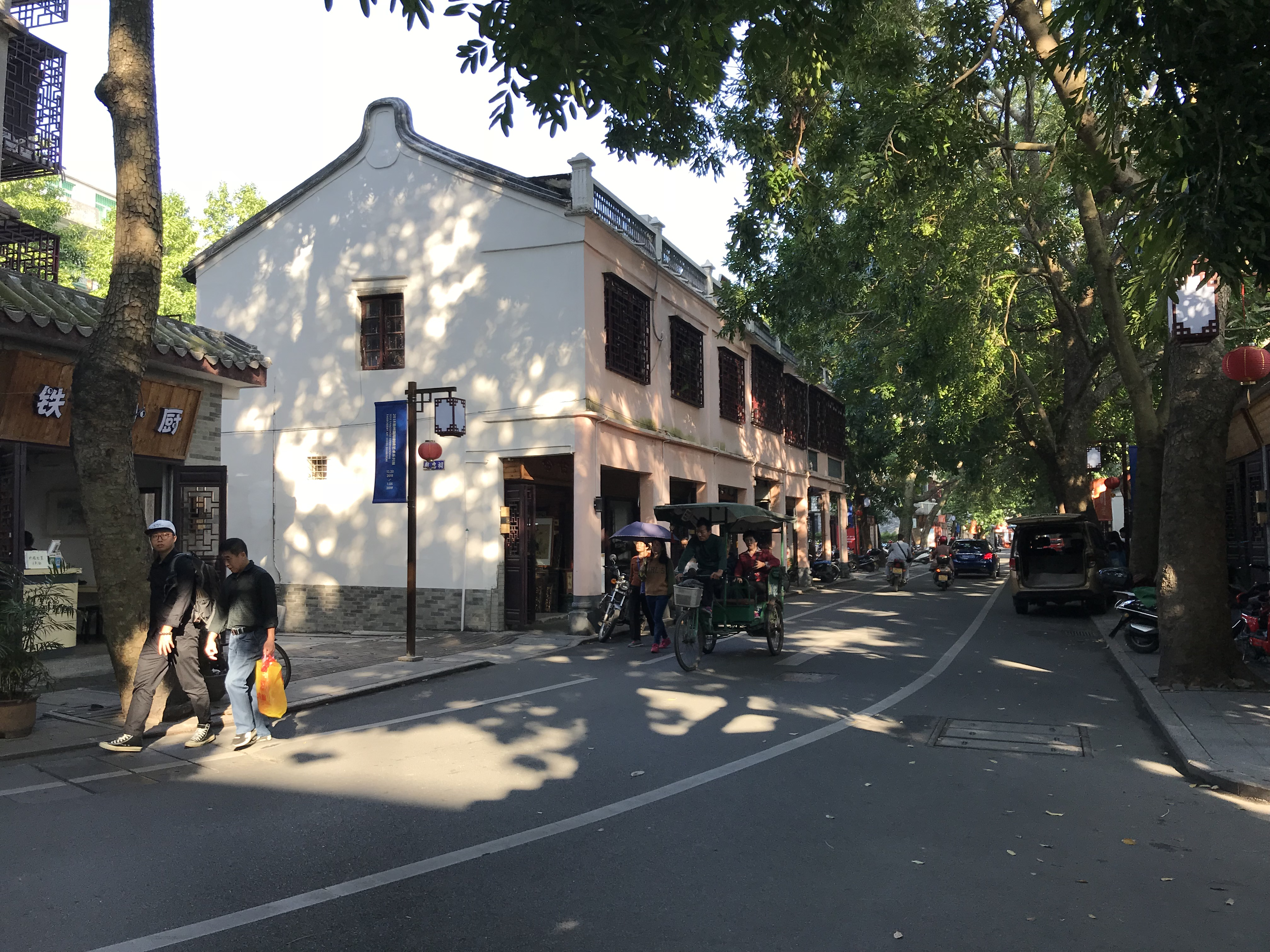 A street in Chaozhou, Guangdong.